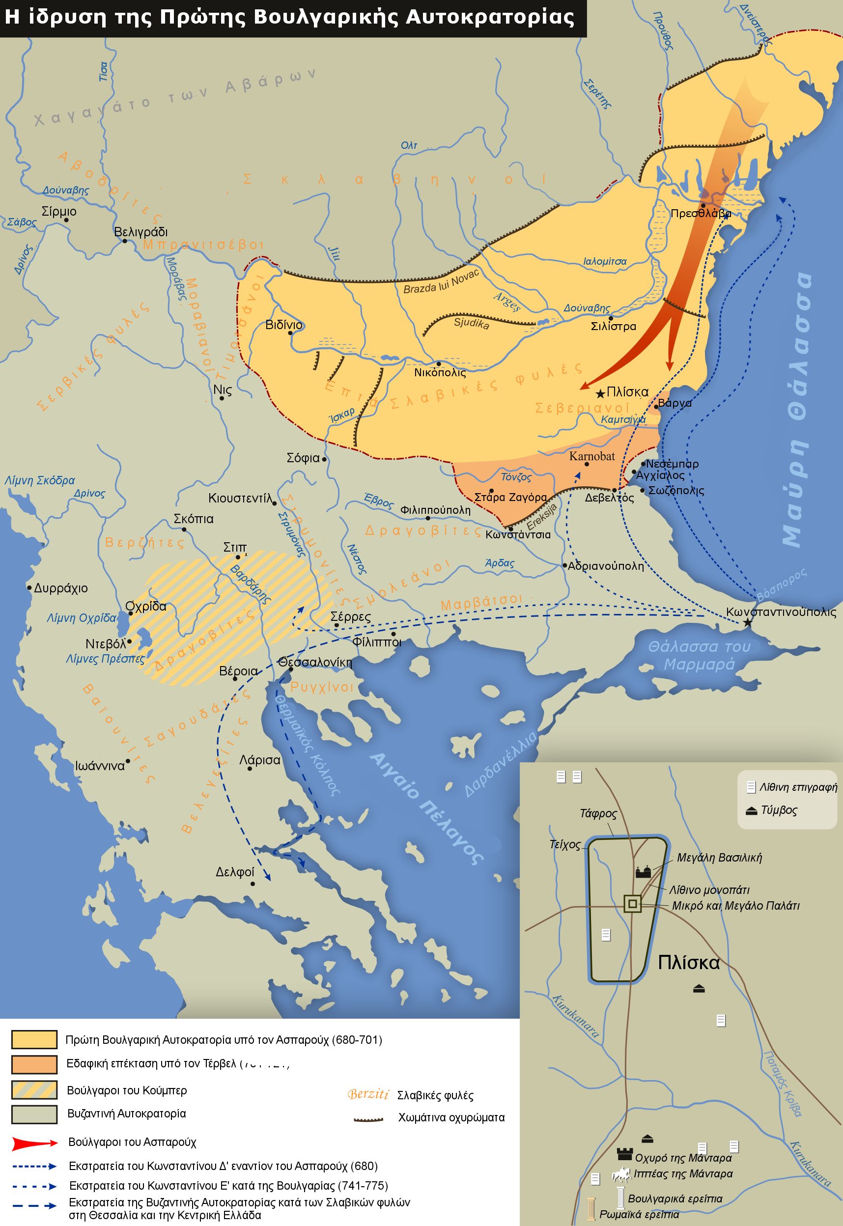 Greek translation of File:Balkans about 680 A.D., foundation of the First Bulgarian Empire.png